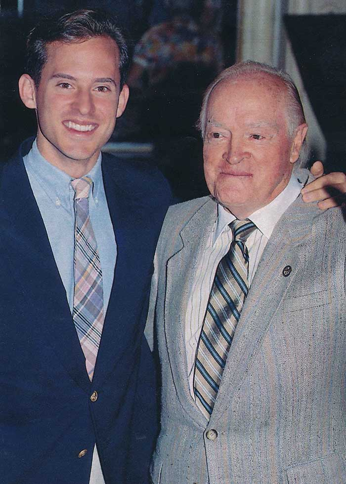 Newly innaugurated 'Baby Rats', Bob and grandson Zachary Hope, emerge from Grand Order of Water Rats lunch in August 1991.